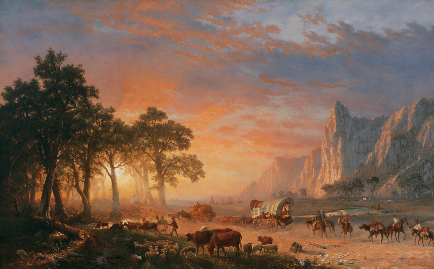 An 1869 oil on canvas painting of emigrants on their way to Oregon, ostensibly inspired by a fifty-wagon train of German emigrants who crossed Bierstadt's path during his 1863 expedition. Referred to as Emigrants Crossing the Plains—Sunset in: Tuckerman, Henry T. (1870). Book of the Artists: American Artist Life, Comprising Biographical and Critical Sketches of American Artists: Preceded by an Historical Account of the Rise and Progress of Art in America. New York: G. P. Putnum & Son. p. 393. (source).